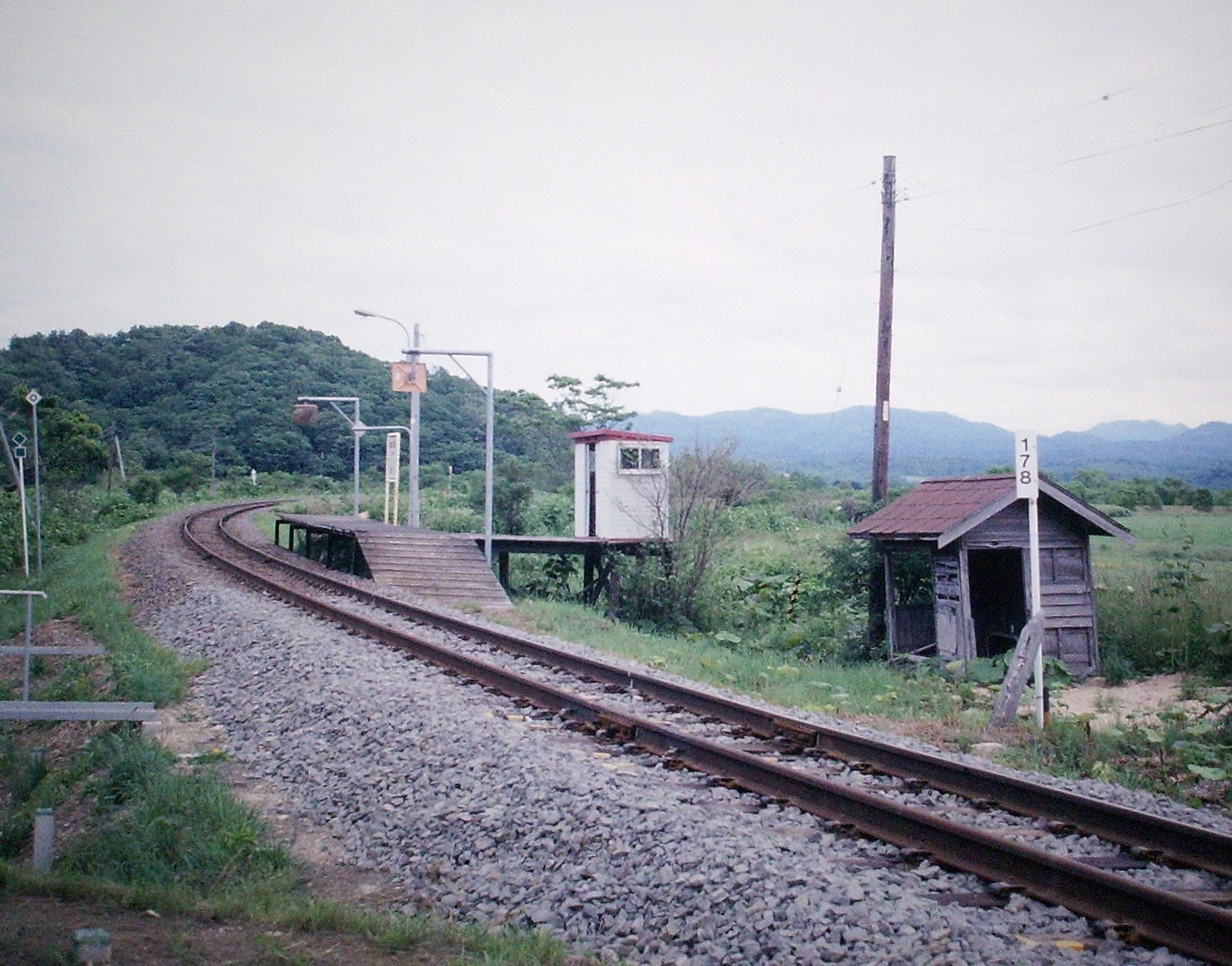 Nukunan Station on the Soya Main Line in Hokkaido, Japan